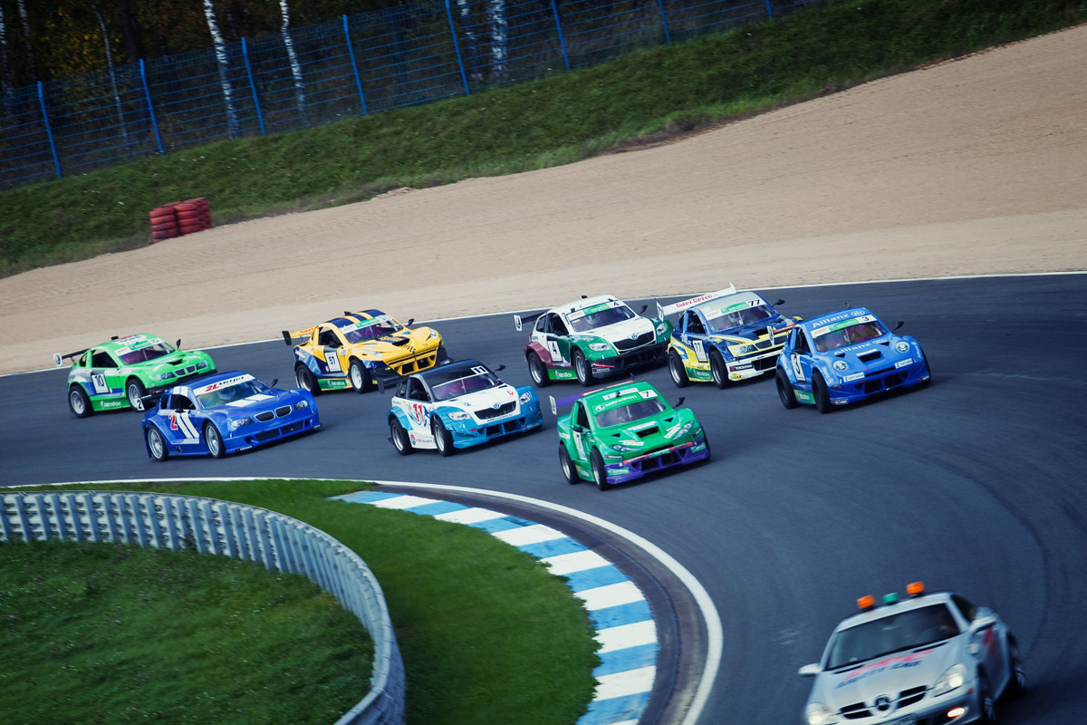 гонки